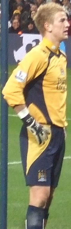 Joe Hart